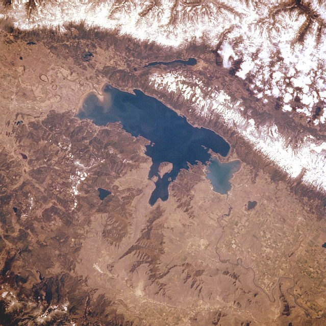 Flathead Lake, Montana - May 1985